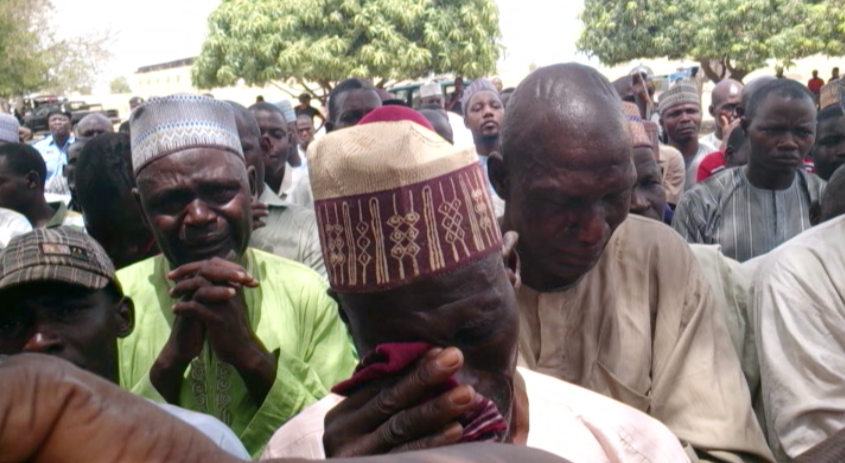 Parents of some of the victims of the 2014 Chibok kidnapping mourn their losses.